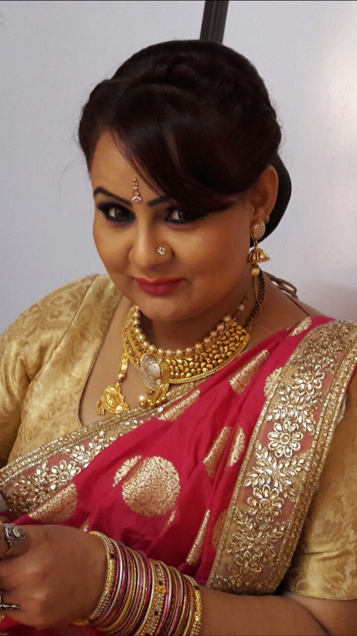 Shefali Rana On The Sets Of Ek Vivah Aisa Bhi